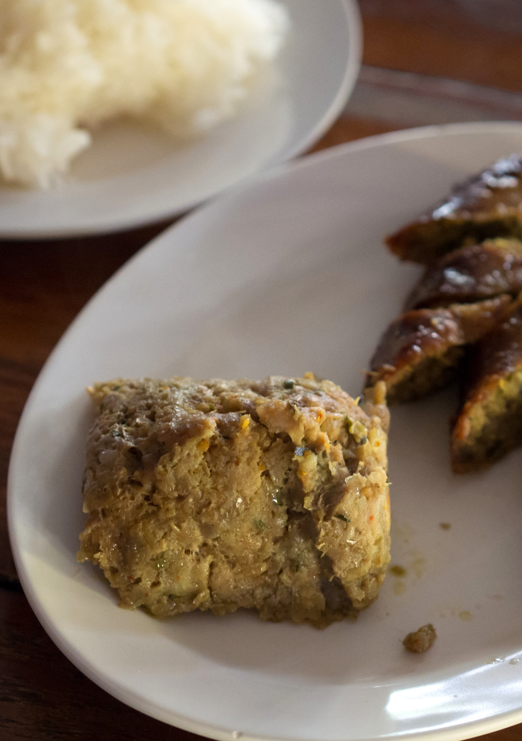 Aep ong-o (Thai script: แอ็บอ่องออ): Roughly chopped pig's brain mixed with egg and curry paste are grilled over a low fire, wrapped inside banana leaves.